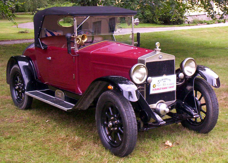 Fiat 509 Spider 1925